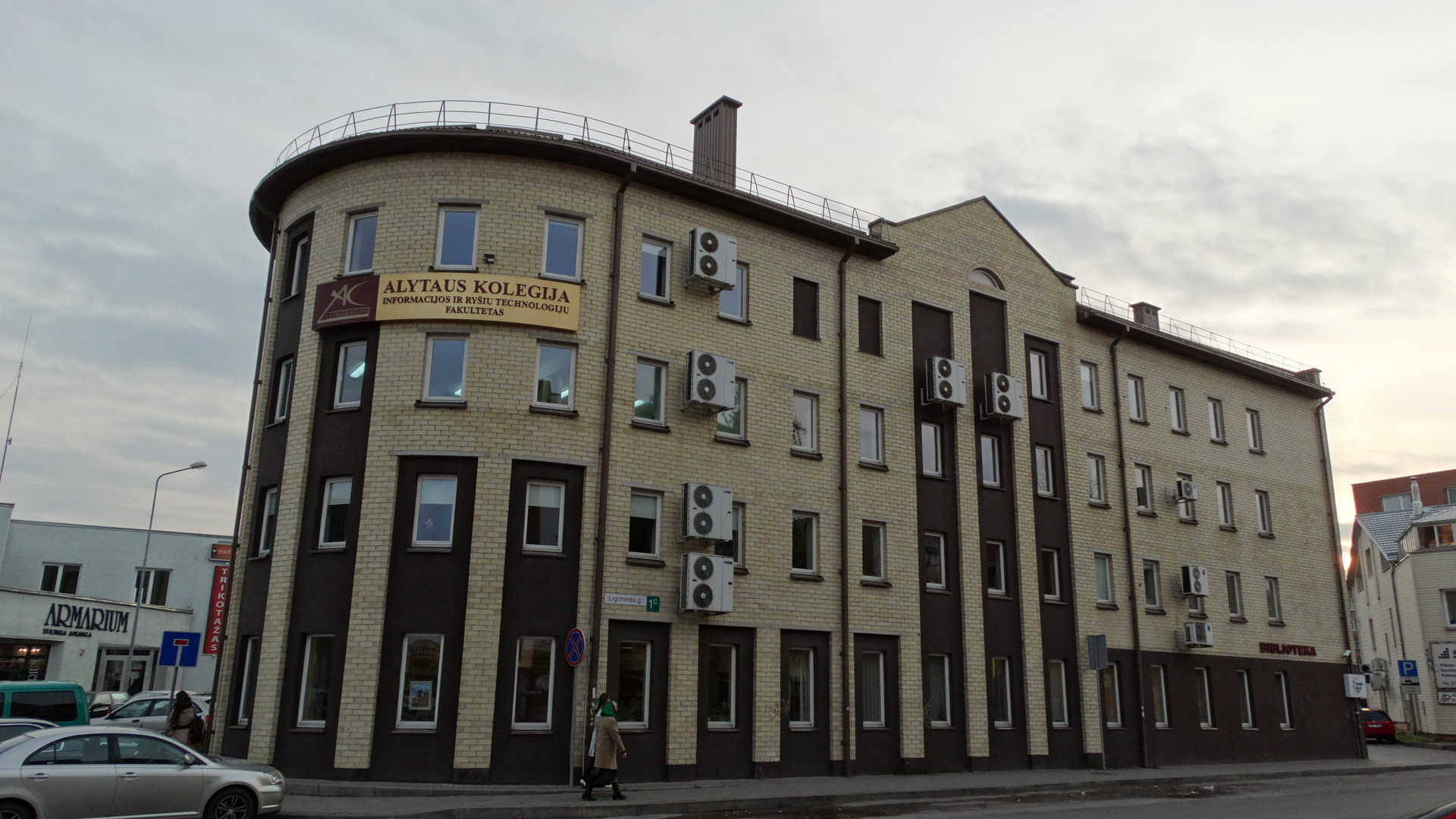 College, Alytus, Lithuania